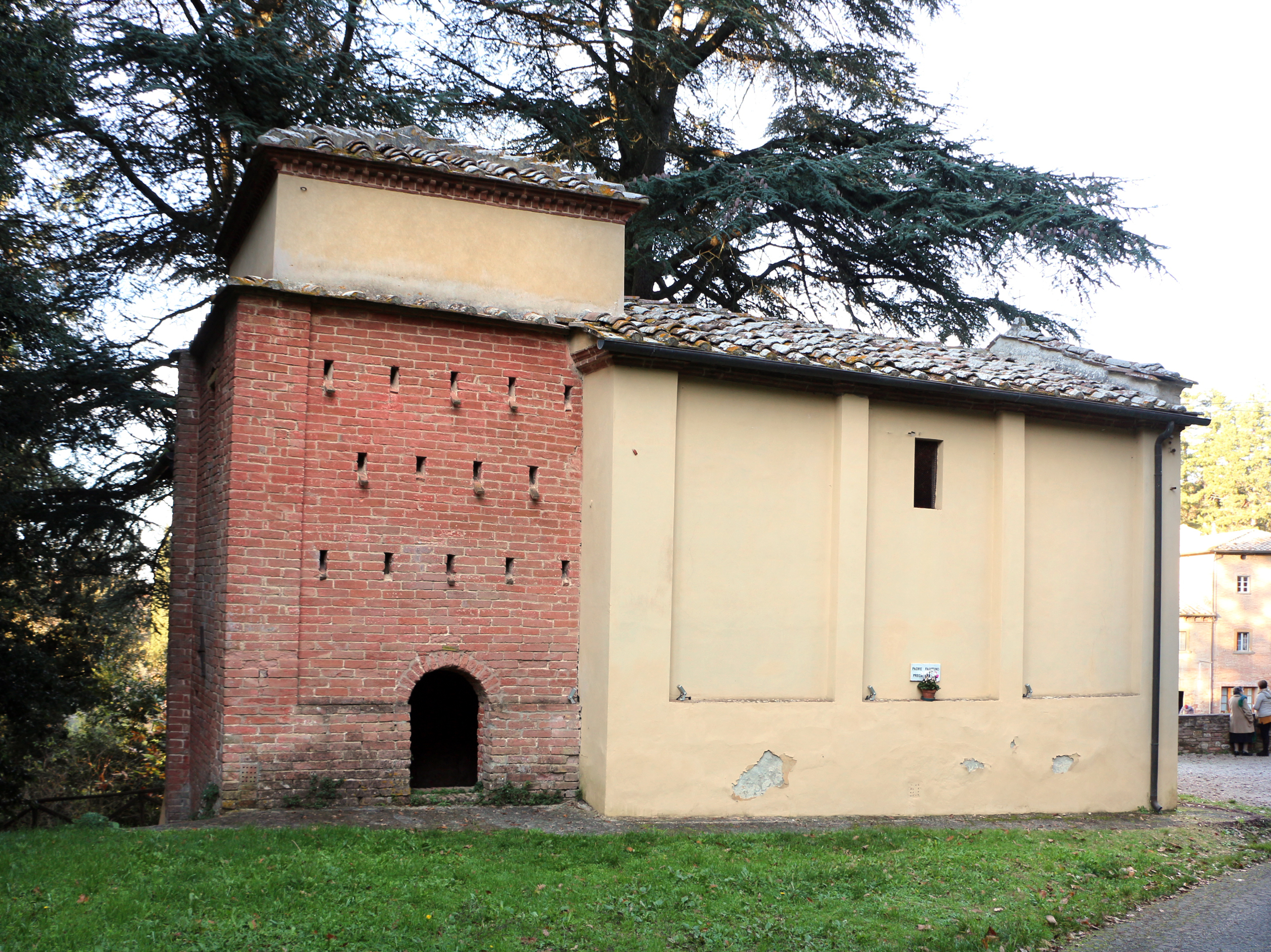 San Vivaldo Sacro Monte